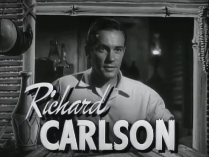 Richard Carlson in White Cargo, by Richard Thorpe (1942)